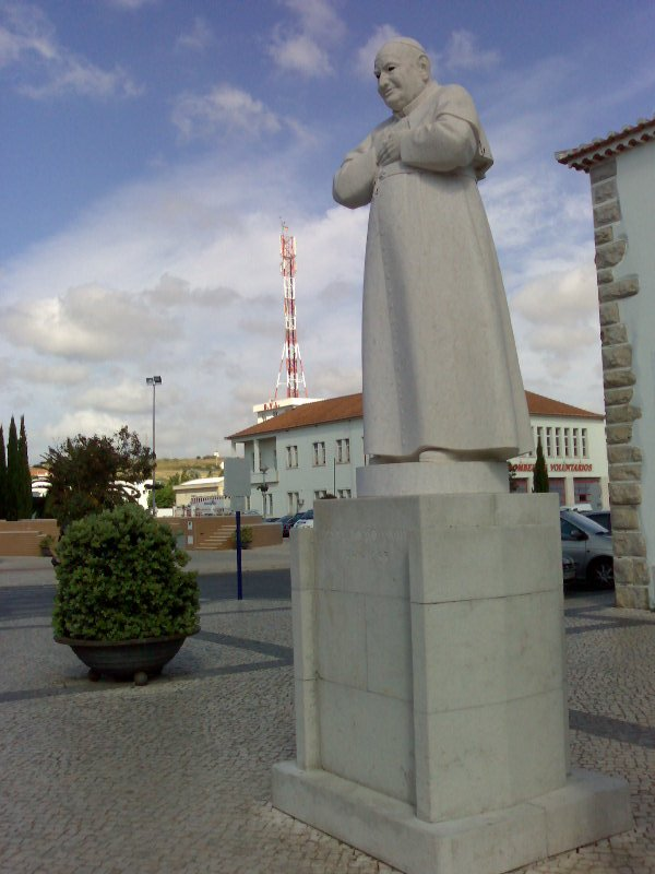 Statues of Pope John XXIII at Lourinhã, Portugal.